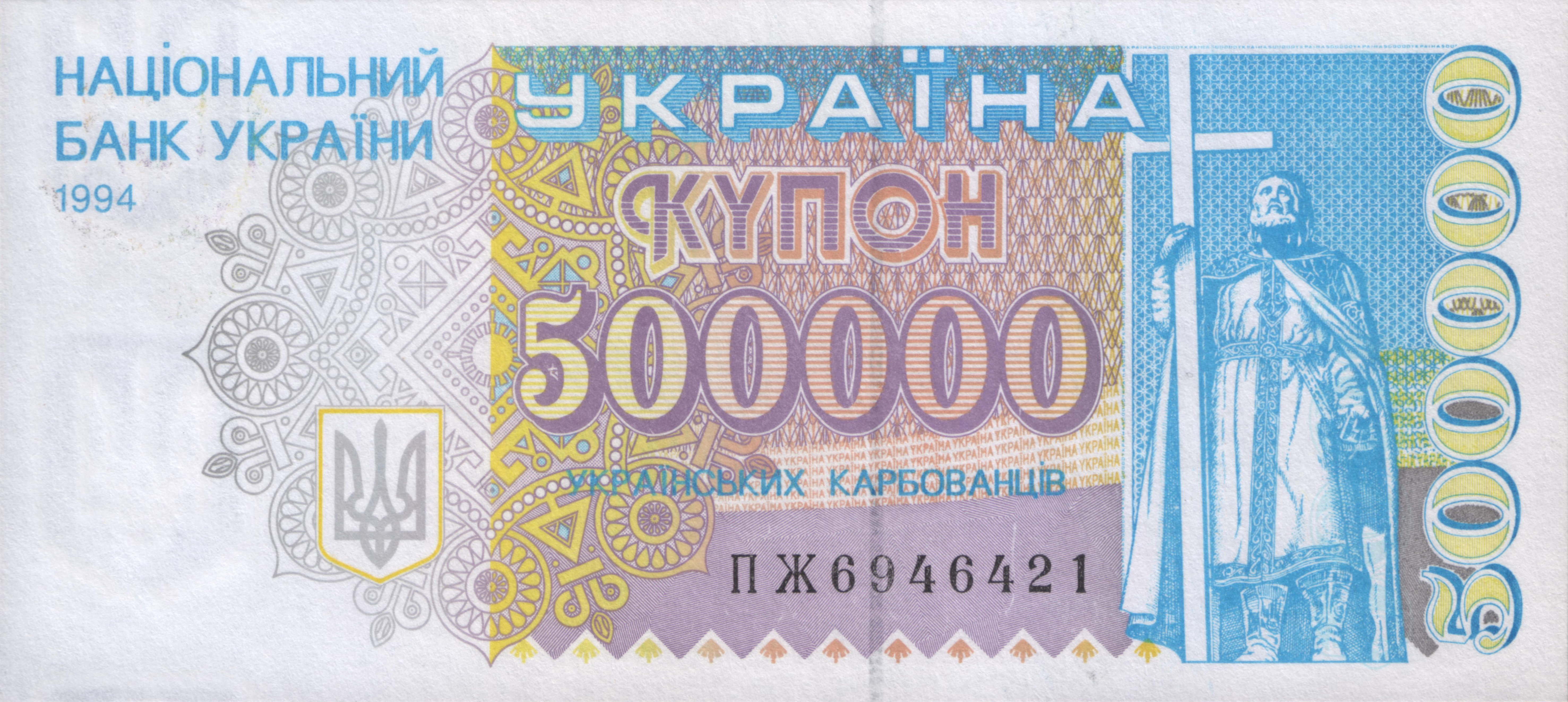 500000 karbovanets (1994)